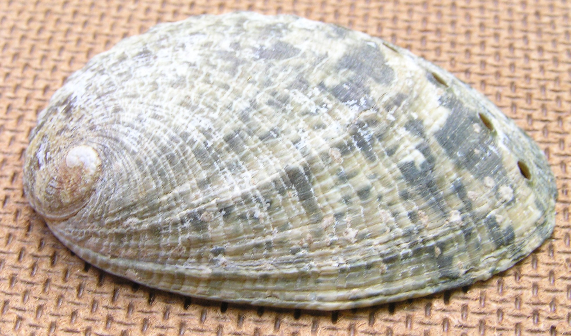 Photo of the shell of Haliotis virginea. Locality: Philippines, Own Collection. Philippines. Cebu.